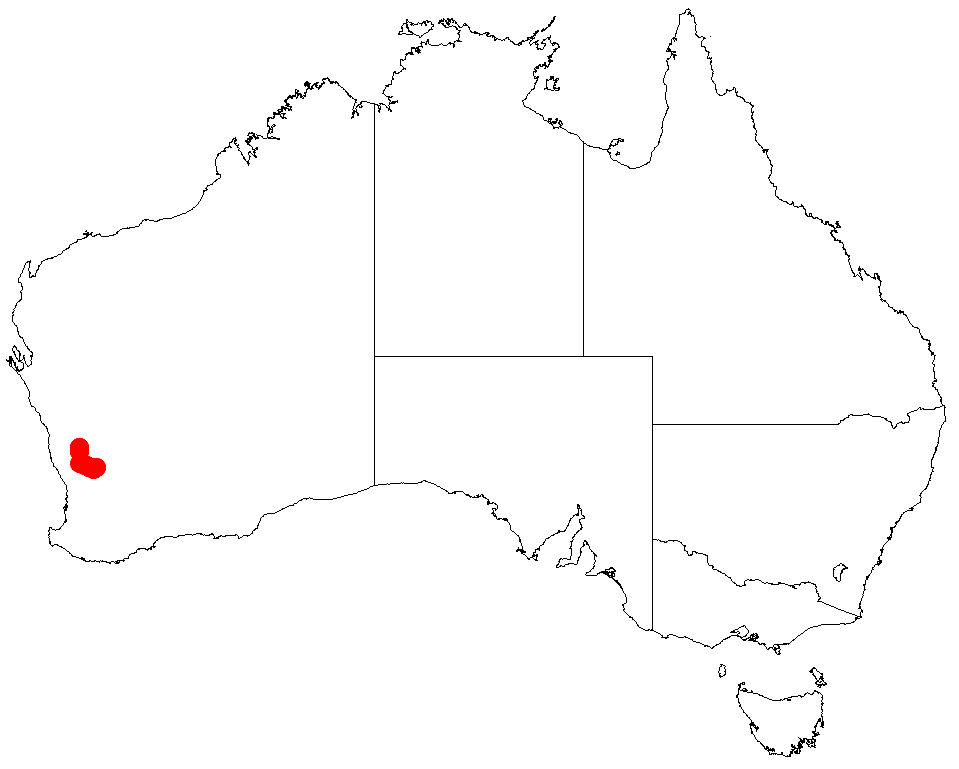 Acacia vassalii occurrence data from Australasia Virtual Herbarium downloaded from on 8 December 2018